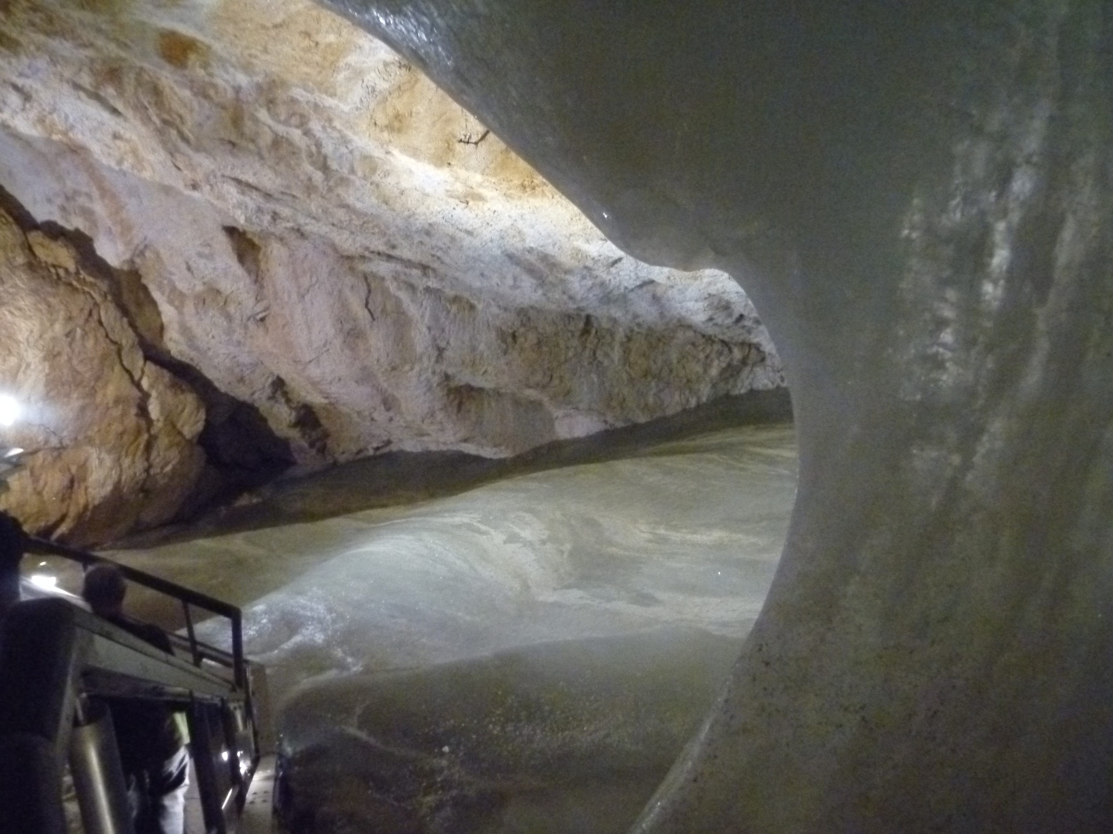 Dobšinská Ice Cave, Slovakia